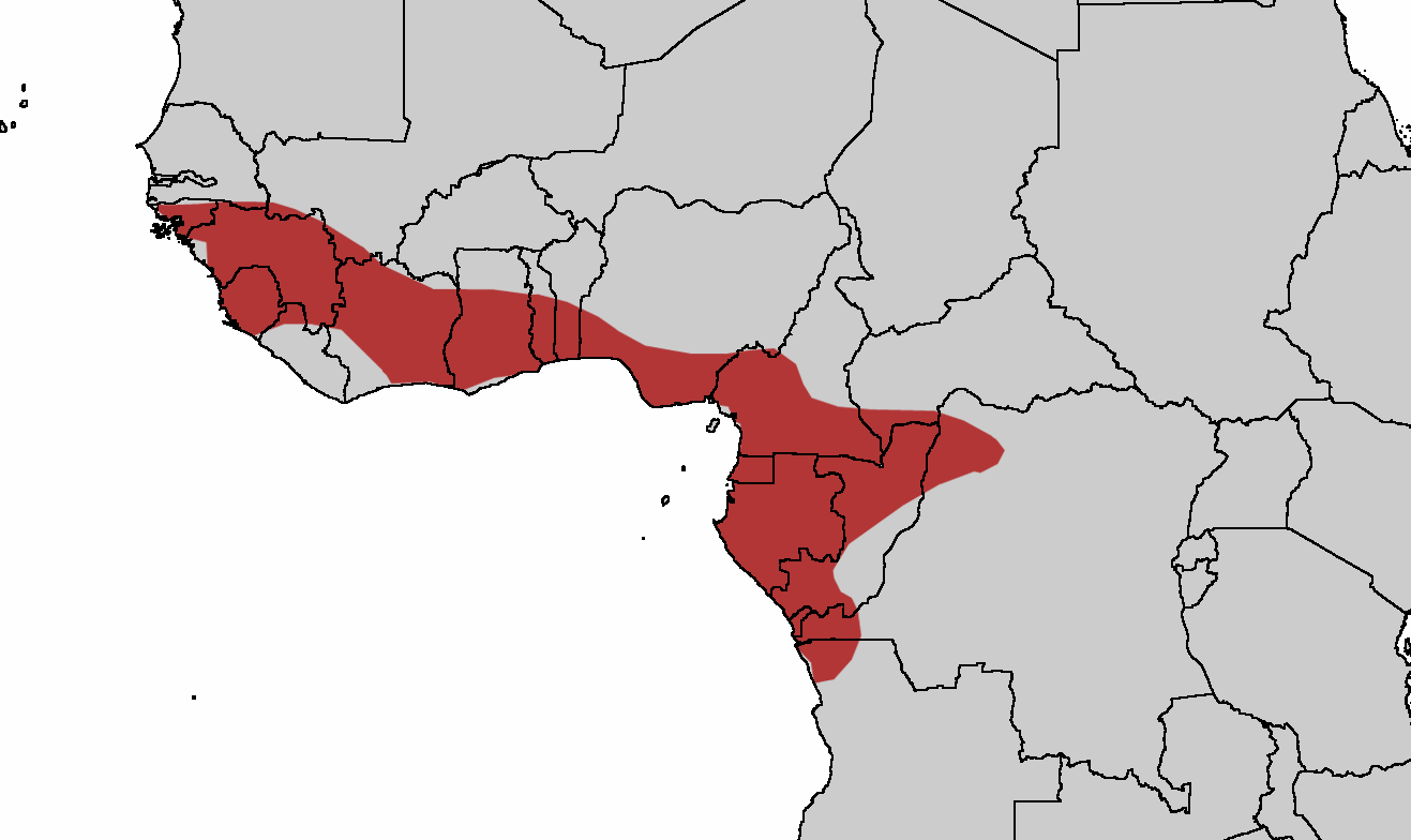 The Guinea Turaco's Distribution.